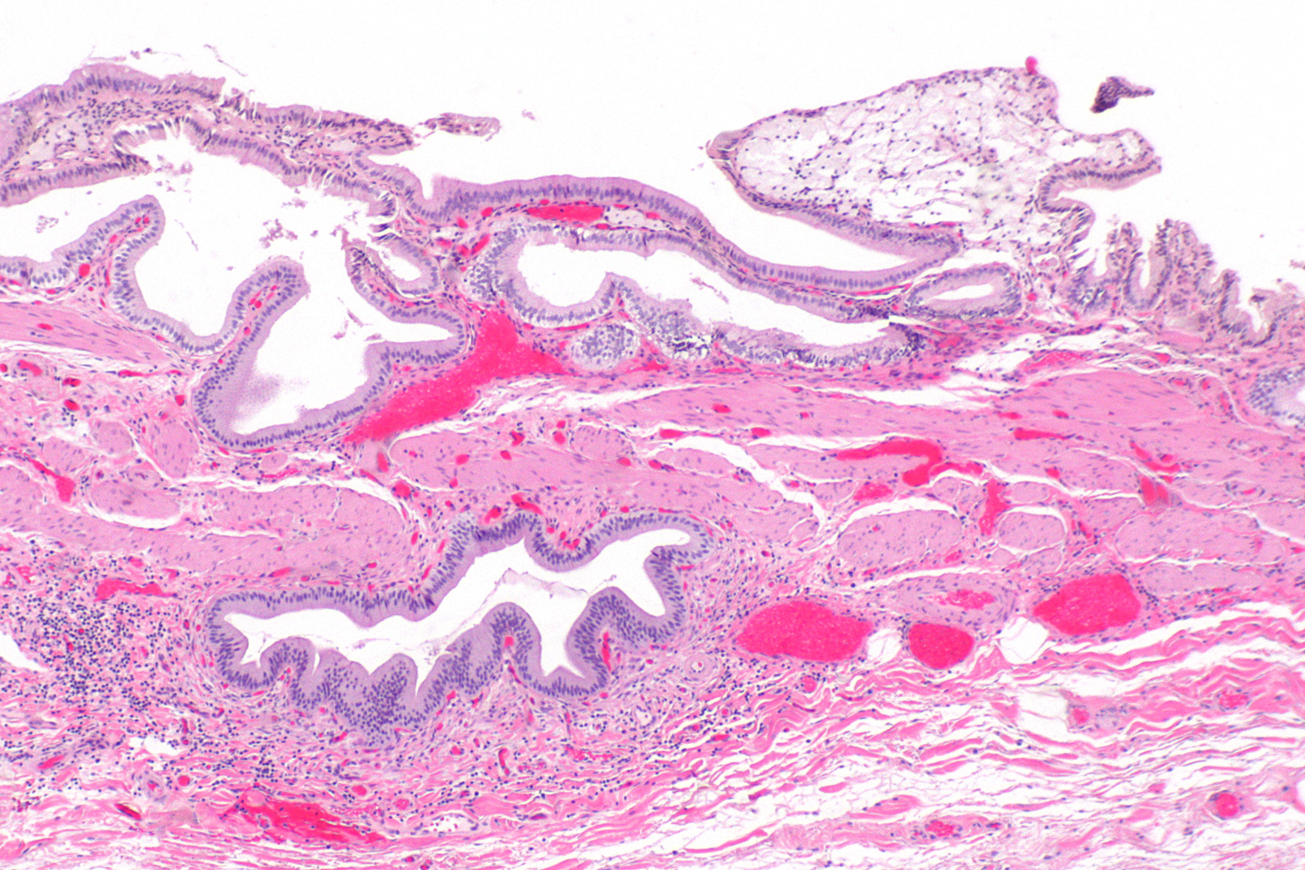 Micrograph of chronic cholecystitis with cholesterolosis. H&E stain. Related images CC - low mag. CC - intermed. mag.